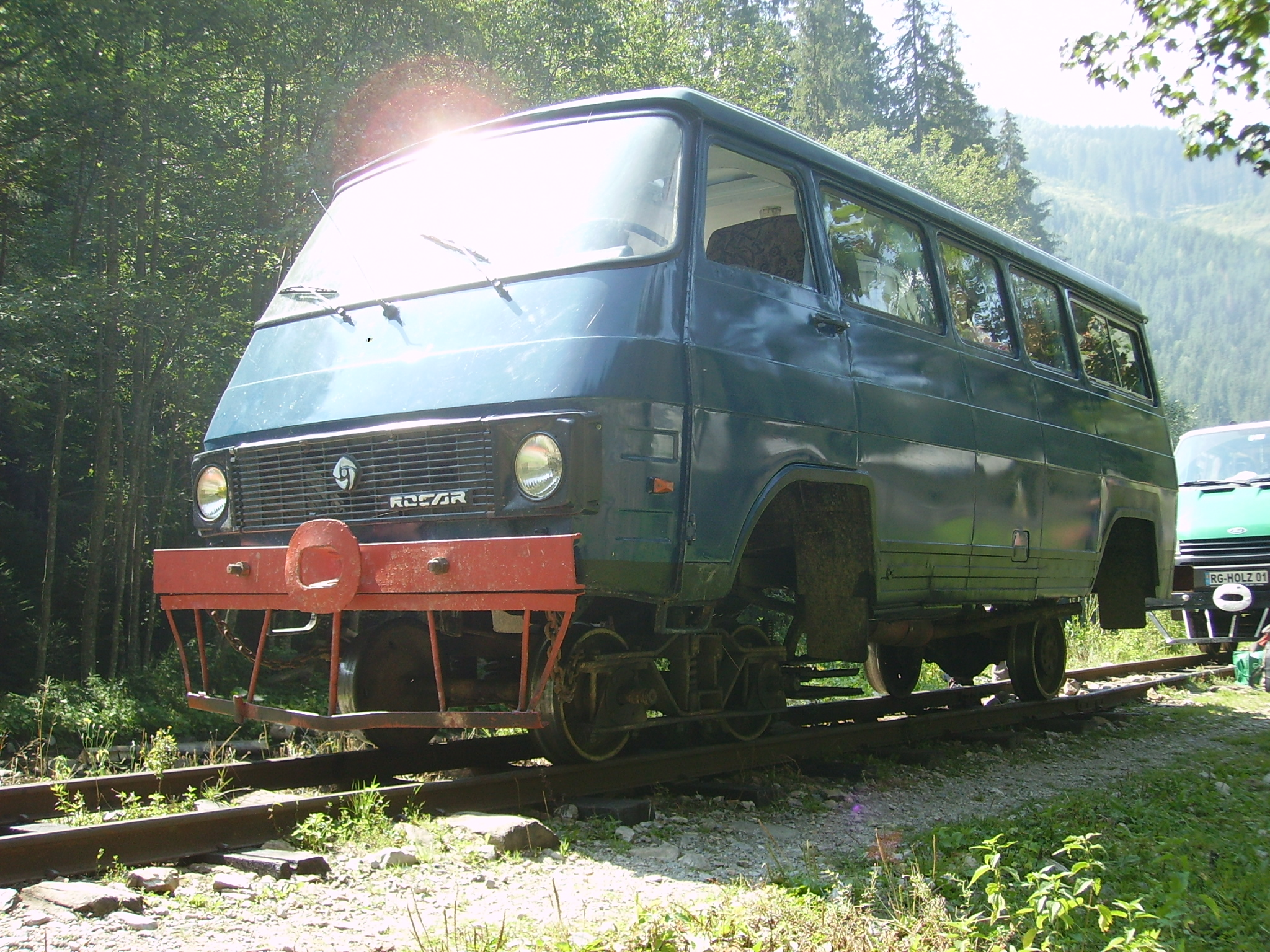 Vasar Valley Mocăniţa, a narrow gauge railway in Romania